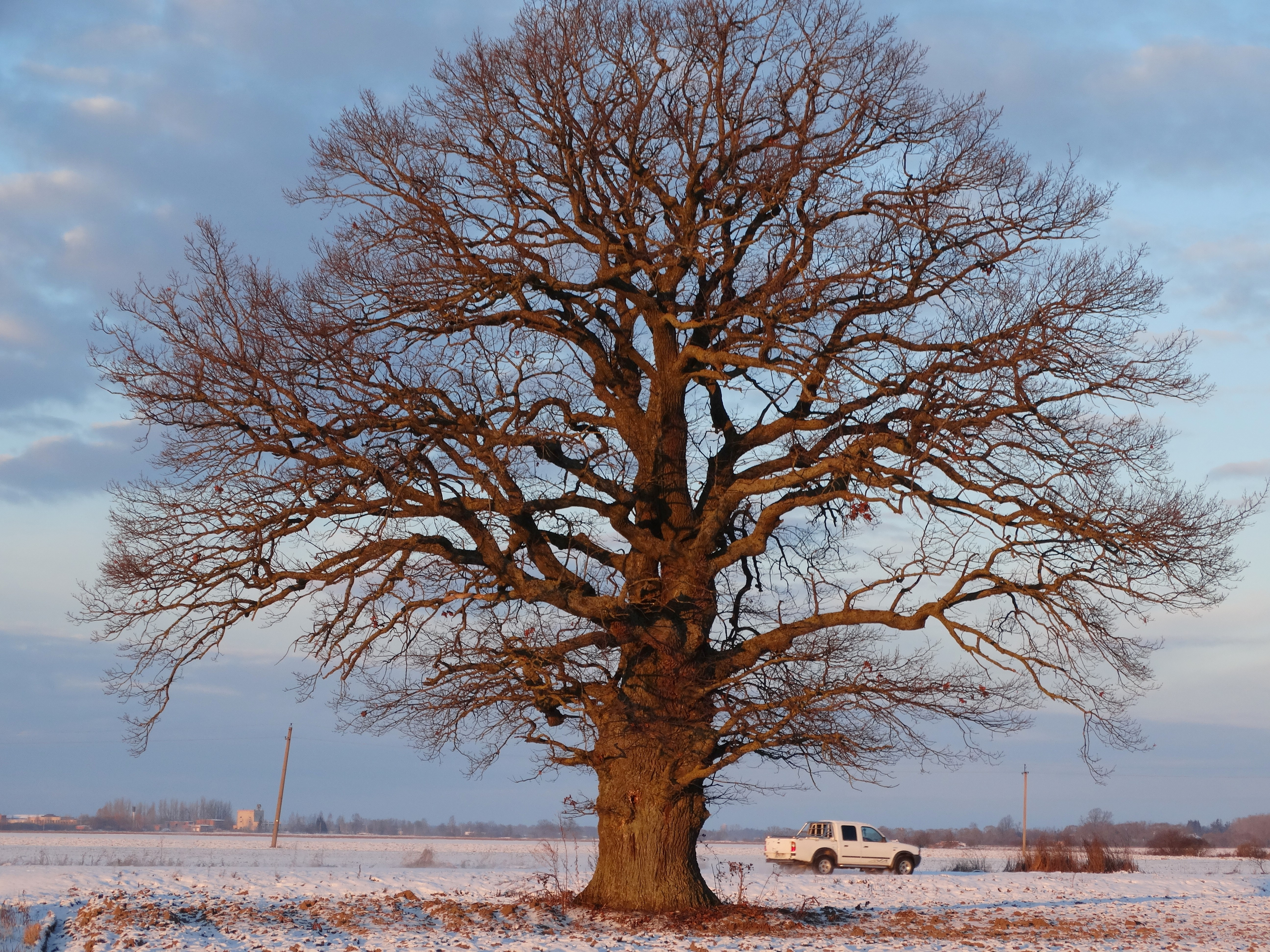 Austakynė Oak, Pasvalys District, Lithuania